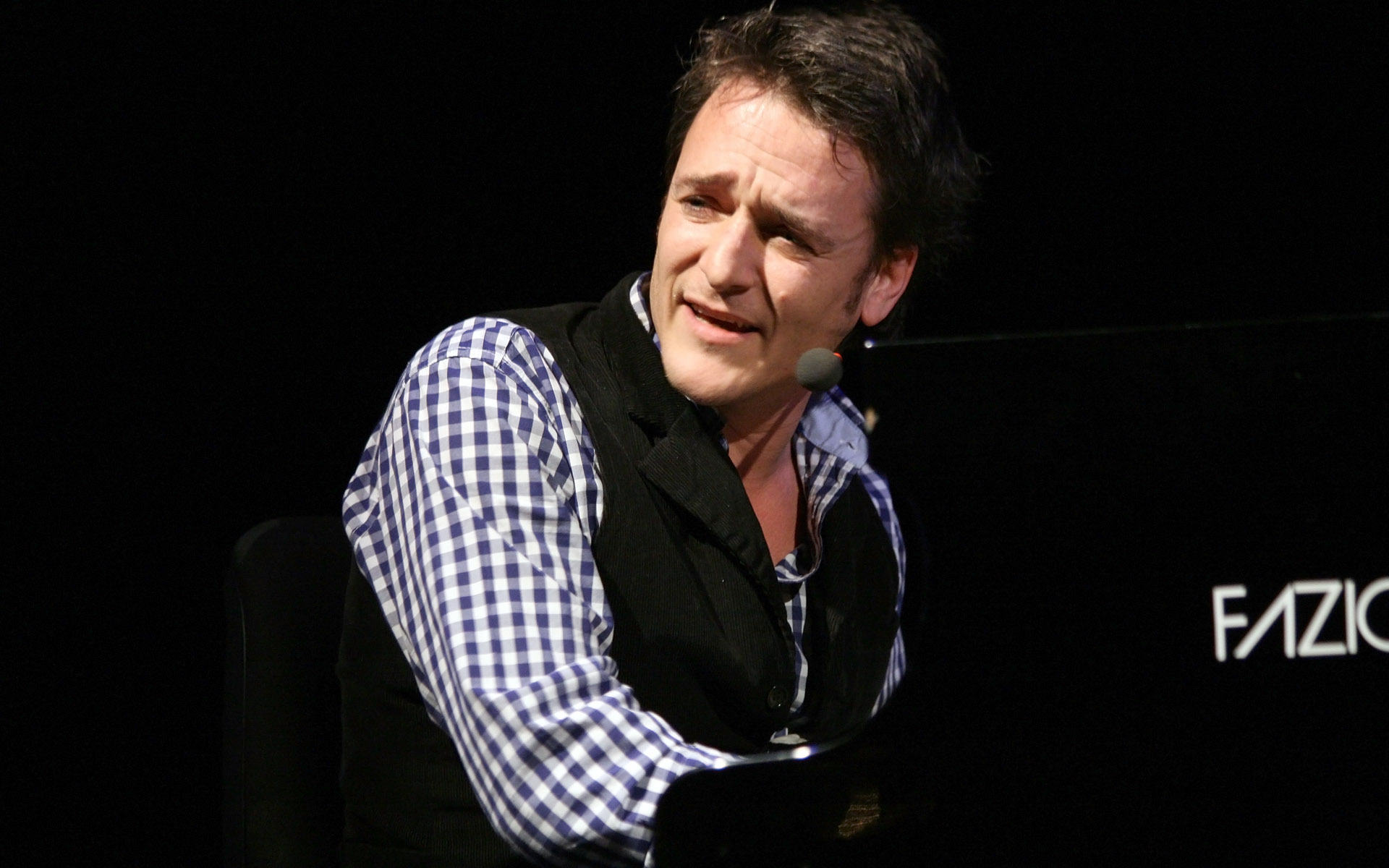 Austrian Cabaret Award (Porgy & Bess, Vienna).